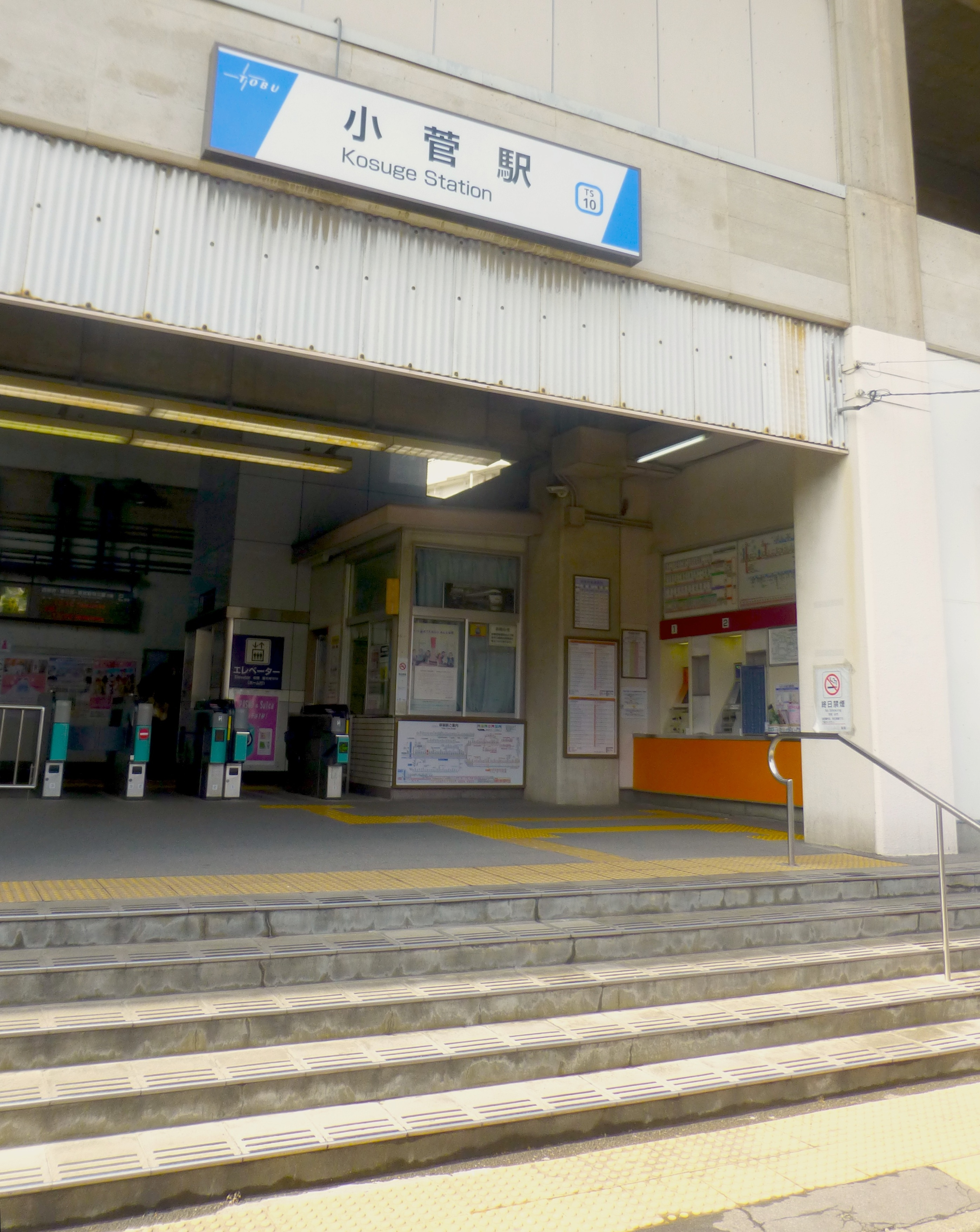 Kosuge Station (小菅駅 Kosuge-eki) is a railway station on the Tobu Skytree Line in Adachi, Tokyo, Japan, operated by the private railway operator Tobu Railway. This is a view of the exit/entrance of the station.